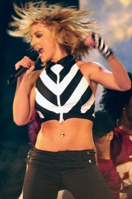 030904-N-9593R-008 Washington, D.C. – Recording Artist Britney Spears performs during the “NFL Kickoff Live from the National Mall Presented by Pepsi Vanilla” concert on September 4, 2003. Organizers provided priority seating for military members and their families to recognize "Operation Tribute to Freedom", which the Department of Defense established to encourage Americans to show their appreciation to the Department's uniformed personnel. Among the other performers were Aerosmith, Mary J. Blige, Aretha Franklin, and Good Charlotte.